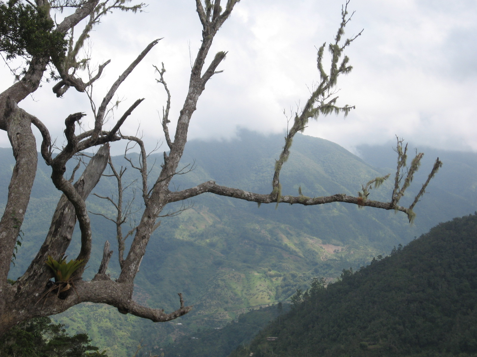 Blue Mountains(Jamaica)from the Hollywell National Park taken on Oatley Mountain trail inside the park